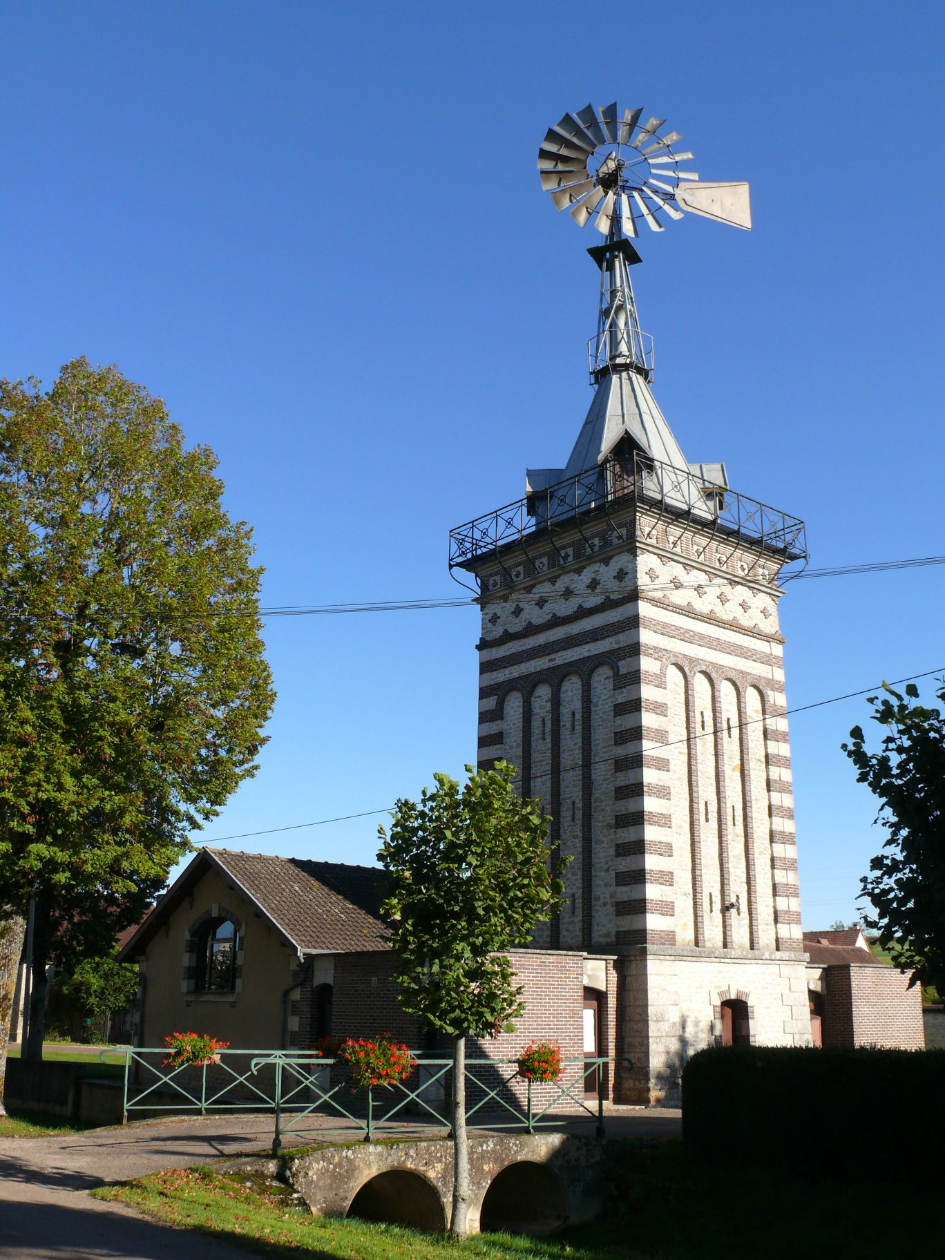 The windmill of Pargues (Aube, Champagne-Ardenne, France).